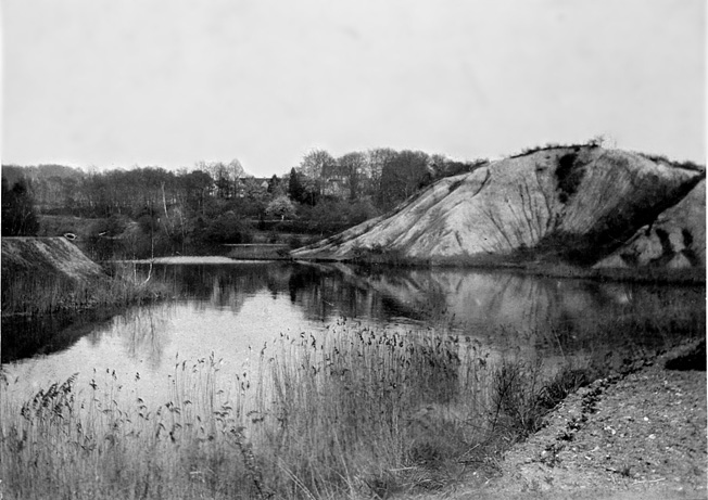 Zanders Trasskuhl